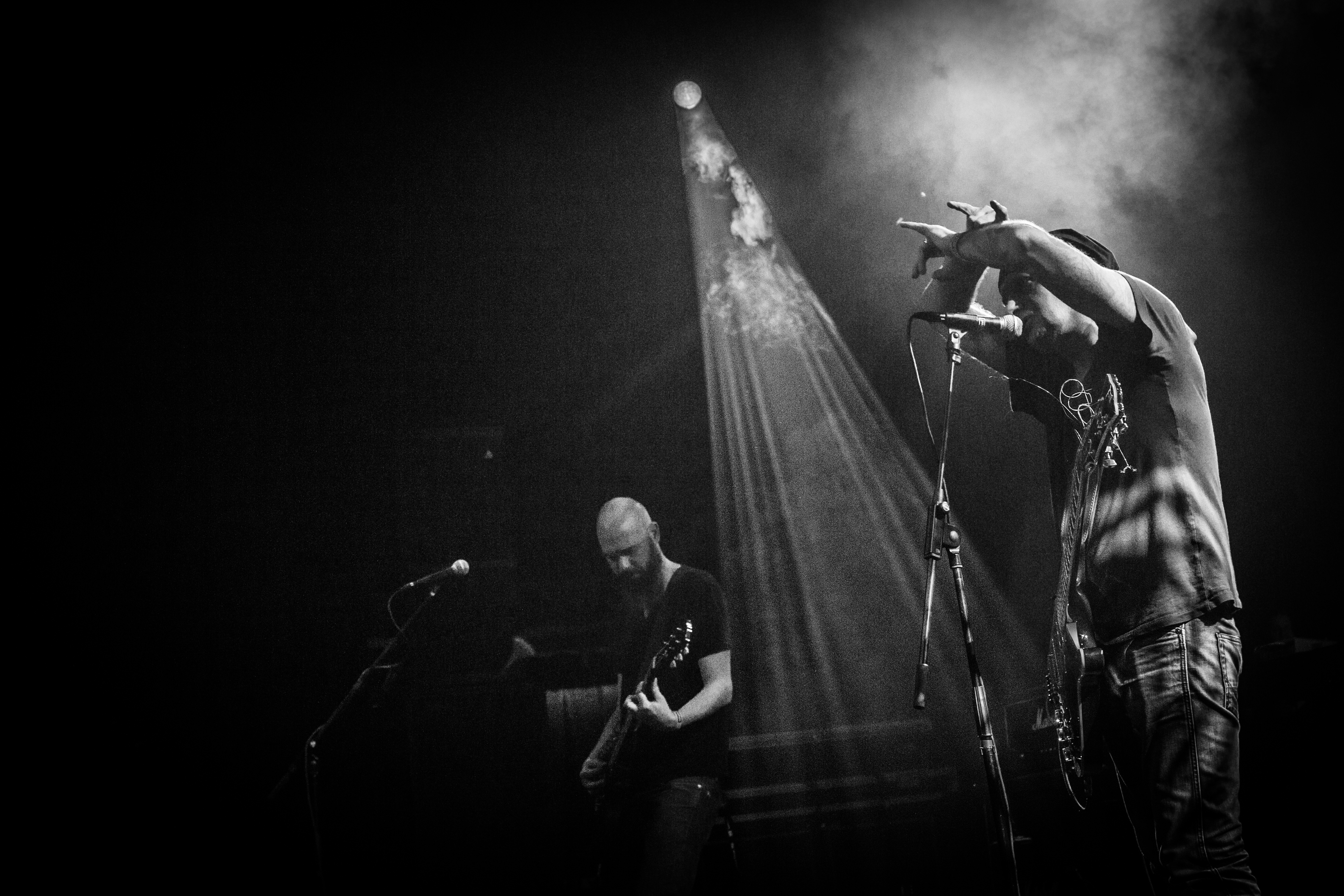 Tiamat performing live at Eindhoven Metal Meeting, 2016